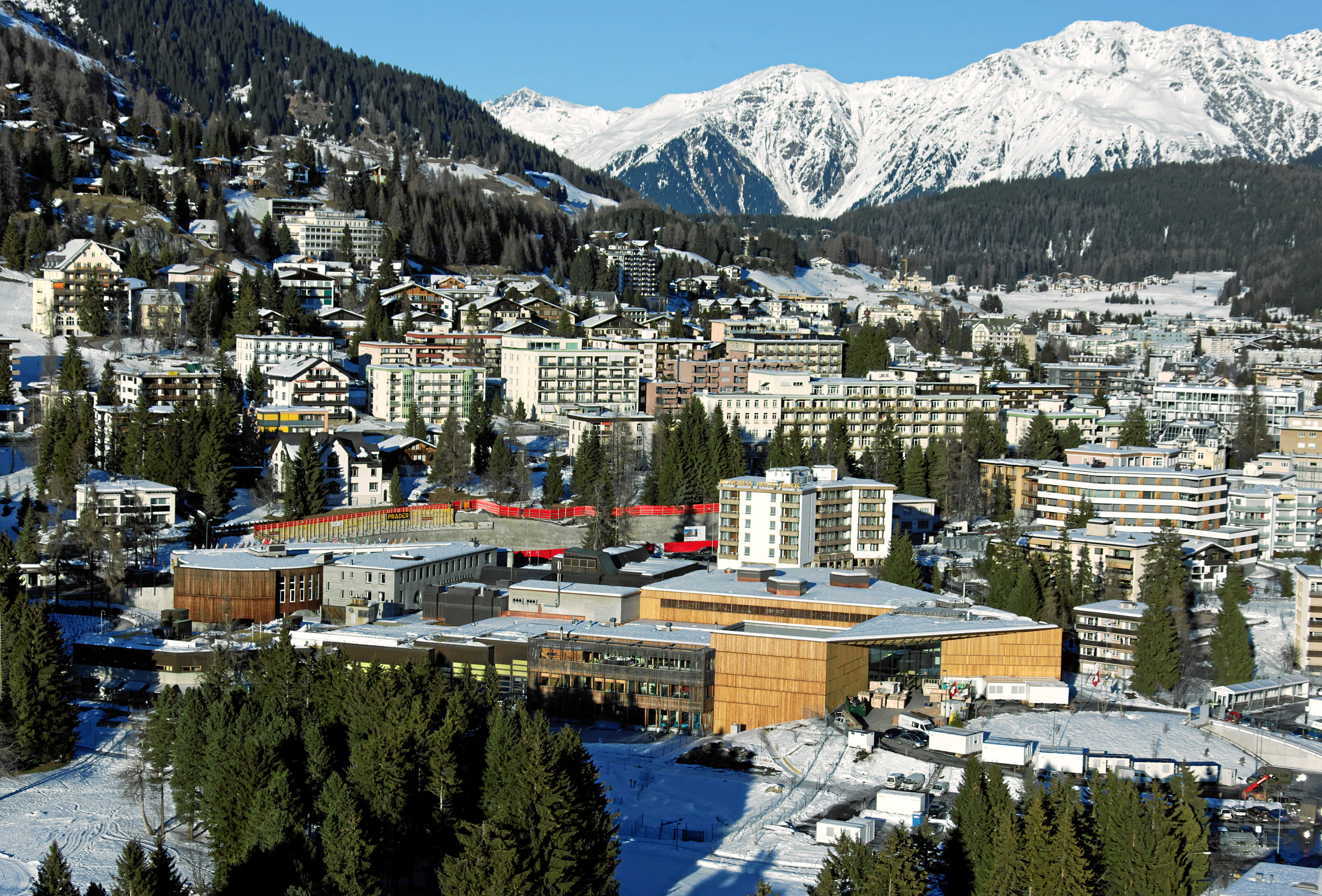 DAVOS/SWITZERLAND, 17JAN11 - Aerial Photo of Davos, the biggest tourism metropolis of the Swiss alps, captured before the opening of the Annual Meeting 2011 of the World Economic Forum in Davos, Switzerland, January 17, 2011.